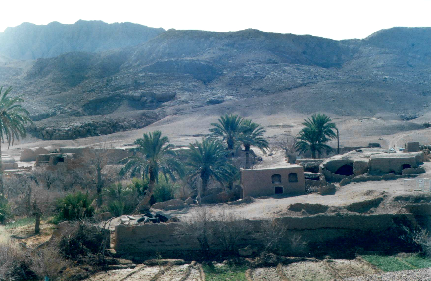 Adobe buildings in Aroosan, Isfahan province — عروسان